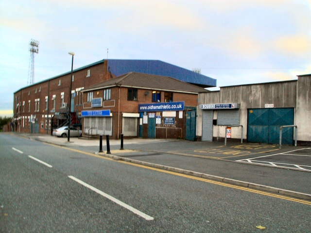 Boundary Park. Oldham Athletic Football Club stadium at the bottom of Sheepfoot Lane.